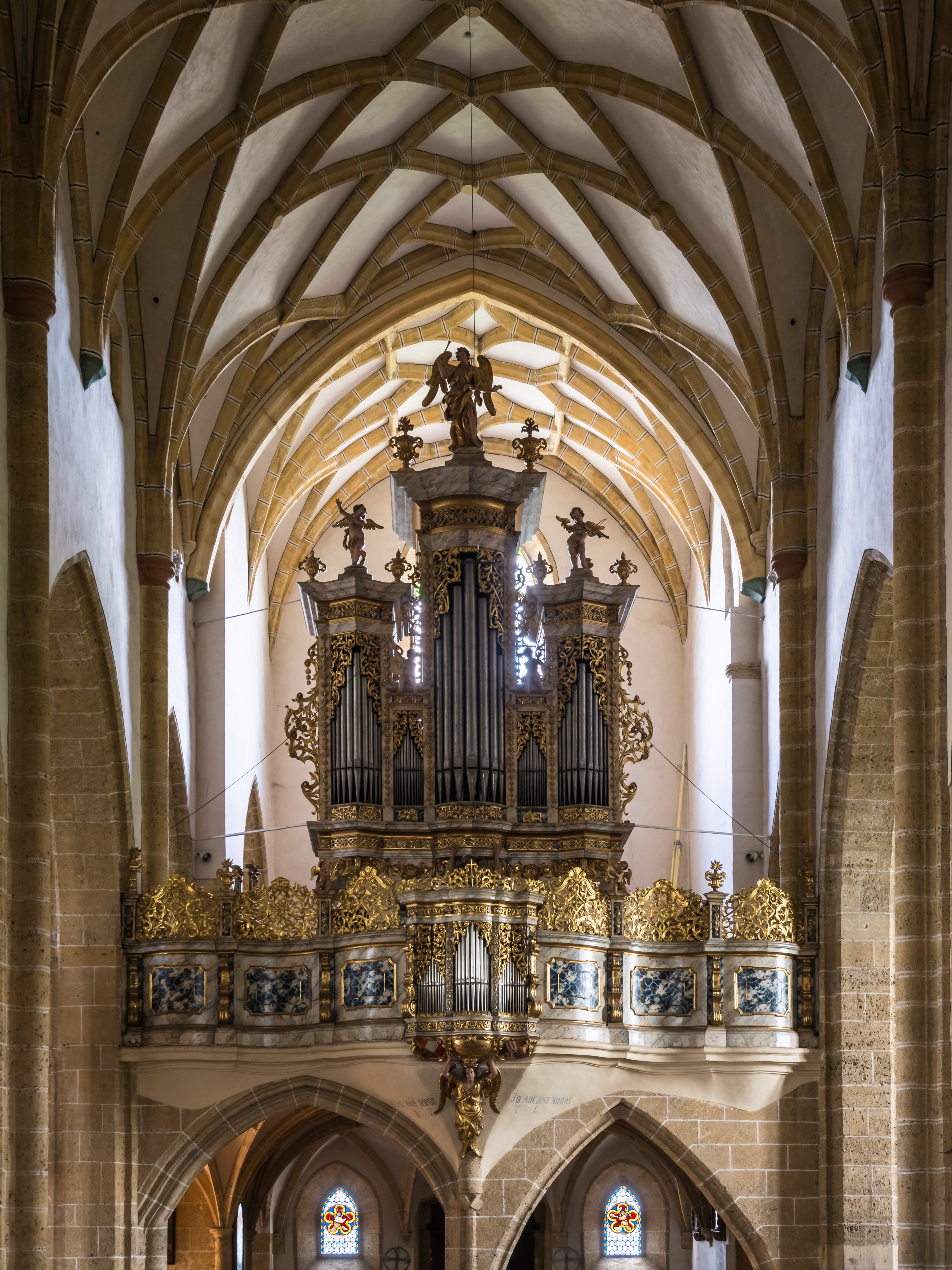 Organ of the parish- and pilgrimage church of the Assumption of Mary at Maria Saal, Carinthia, Austria. Martin Jäger, II/18, built in 1737.